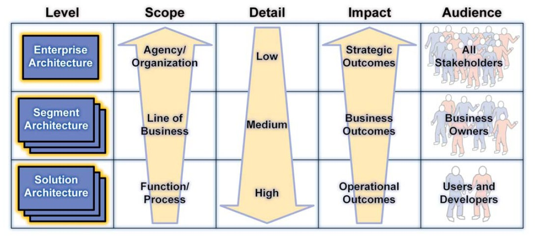 Architectural Levels and Attributes